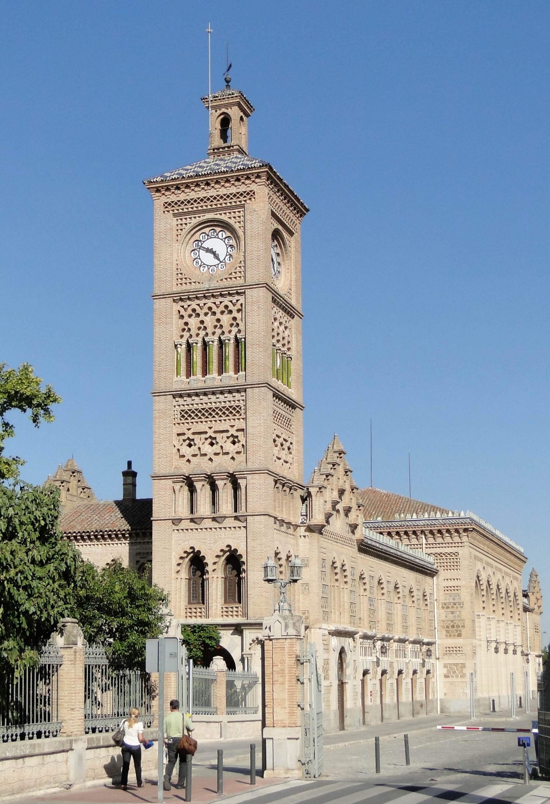 Train station of Toledo, Spain